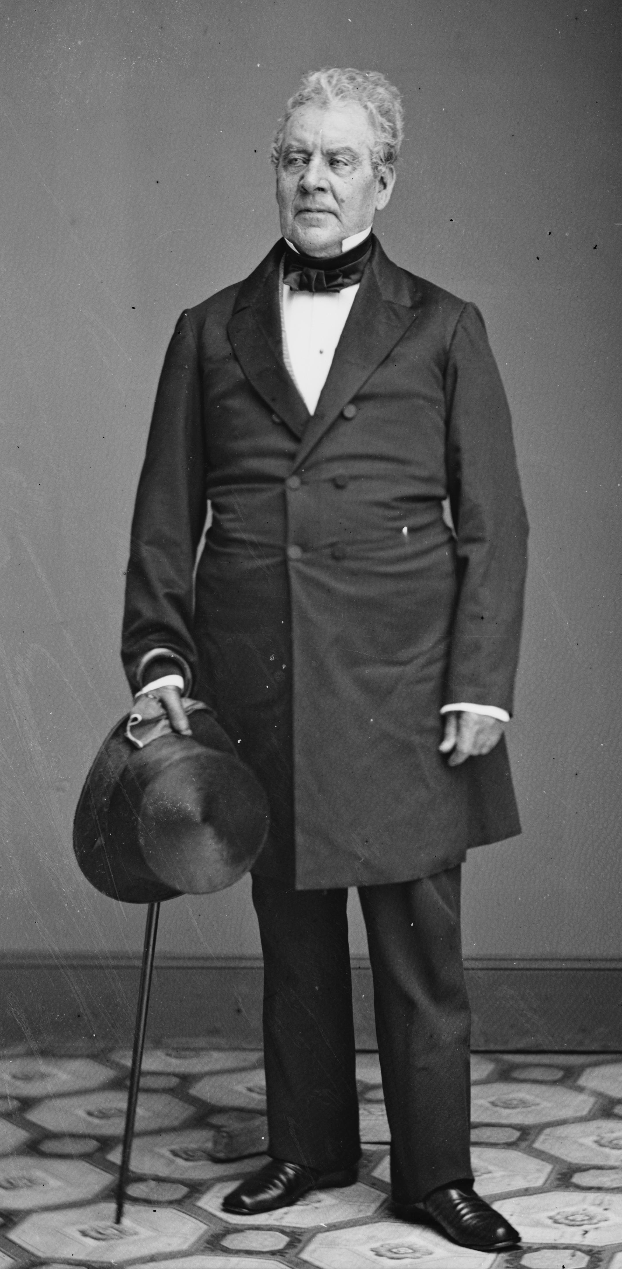 Luther Bradish. Library of Congress description: "Luther Bradish".